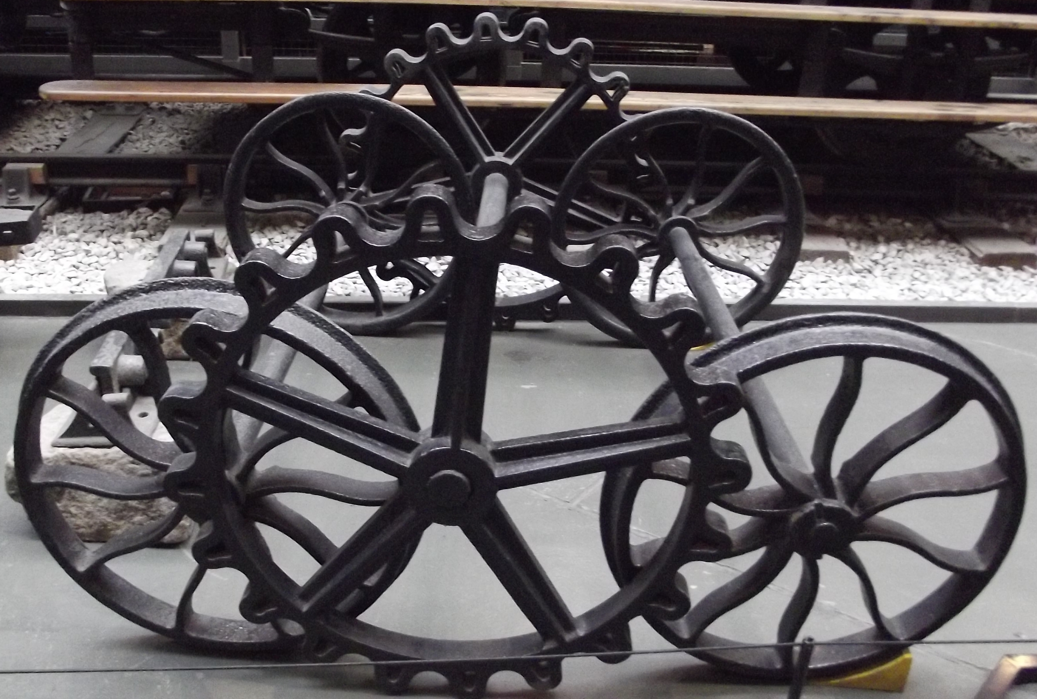 as used on numerous mountian railways around the world